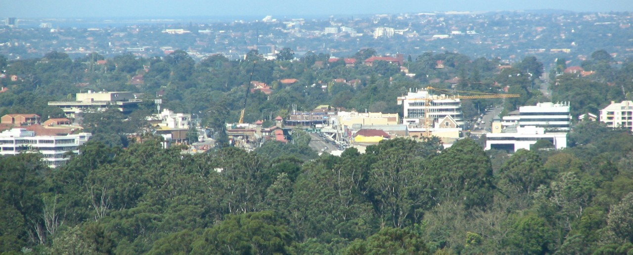 Epping NSW Australia seen from the north